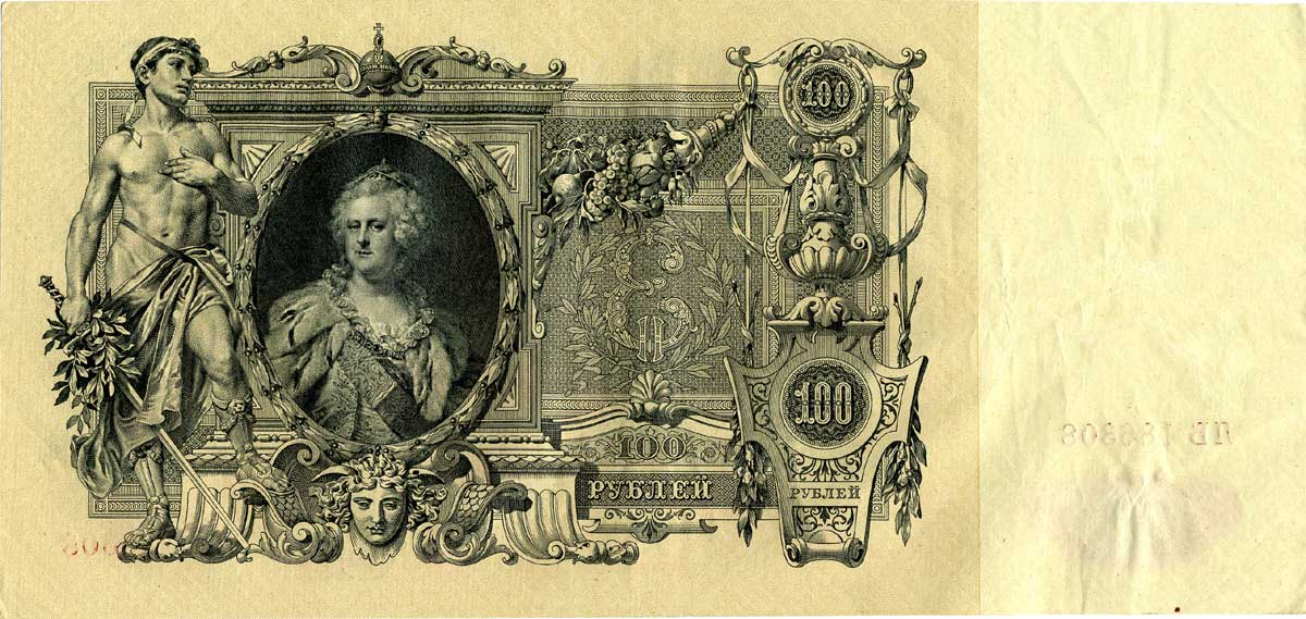 100 roubles édités durant le régime tzariste, 1910